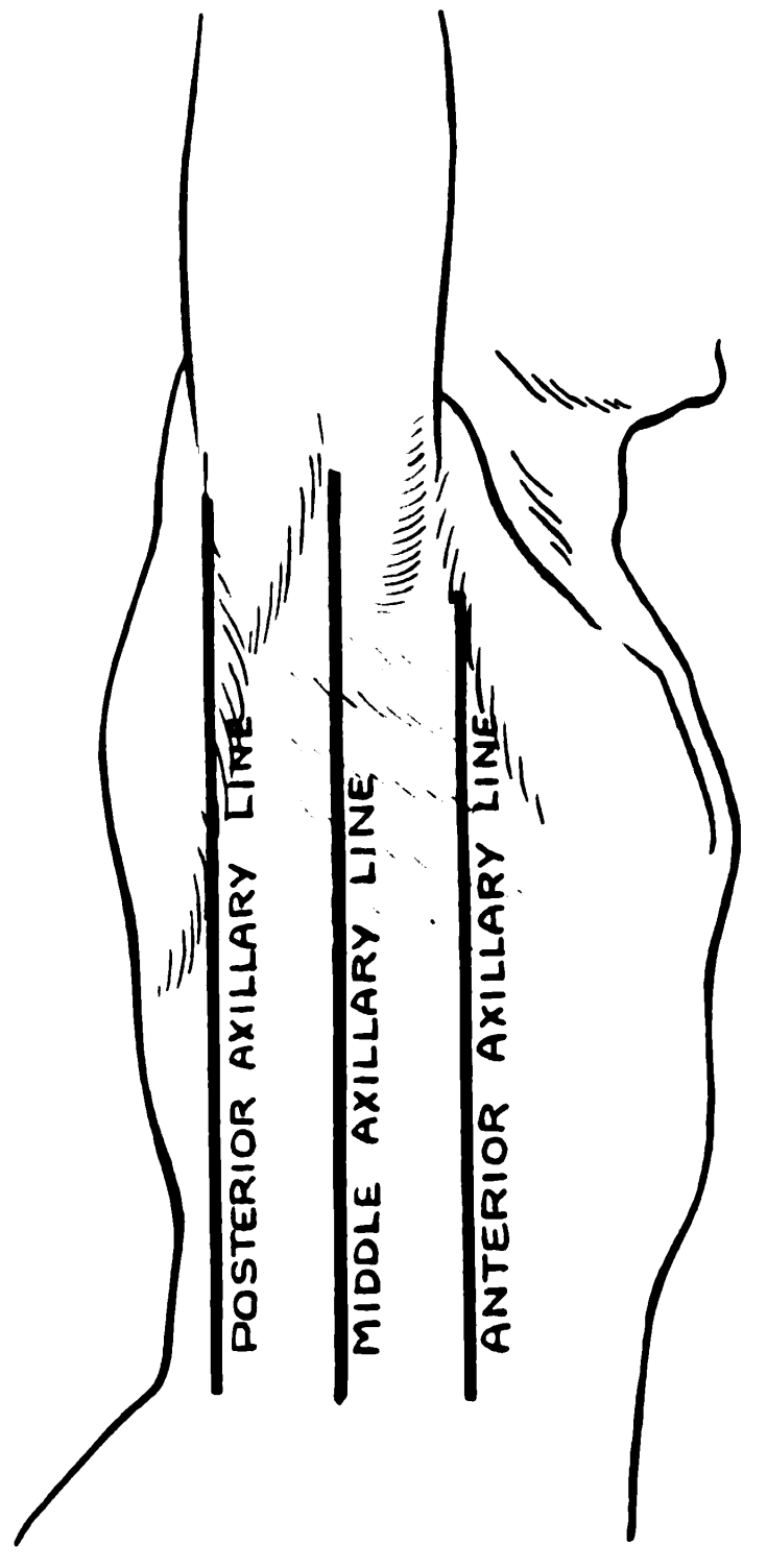 Various axillary lines